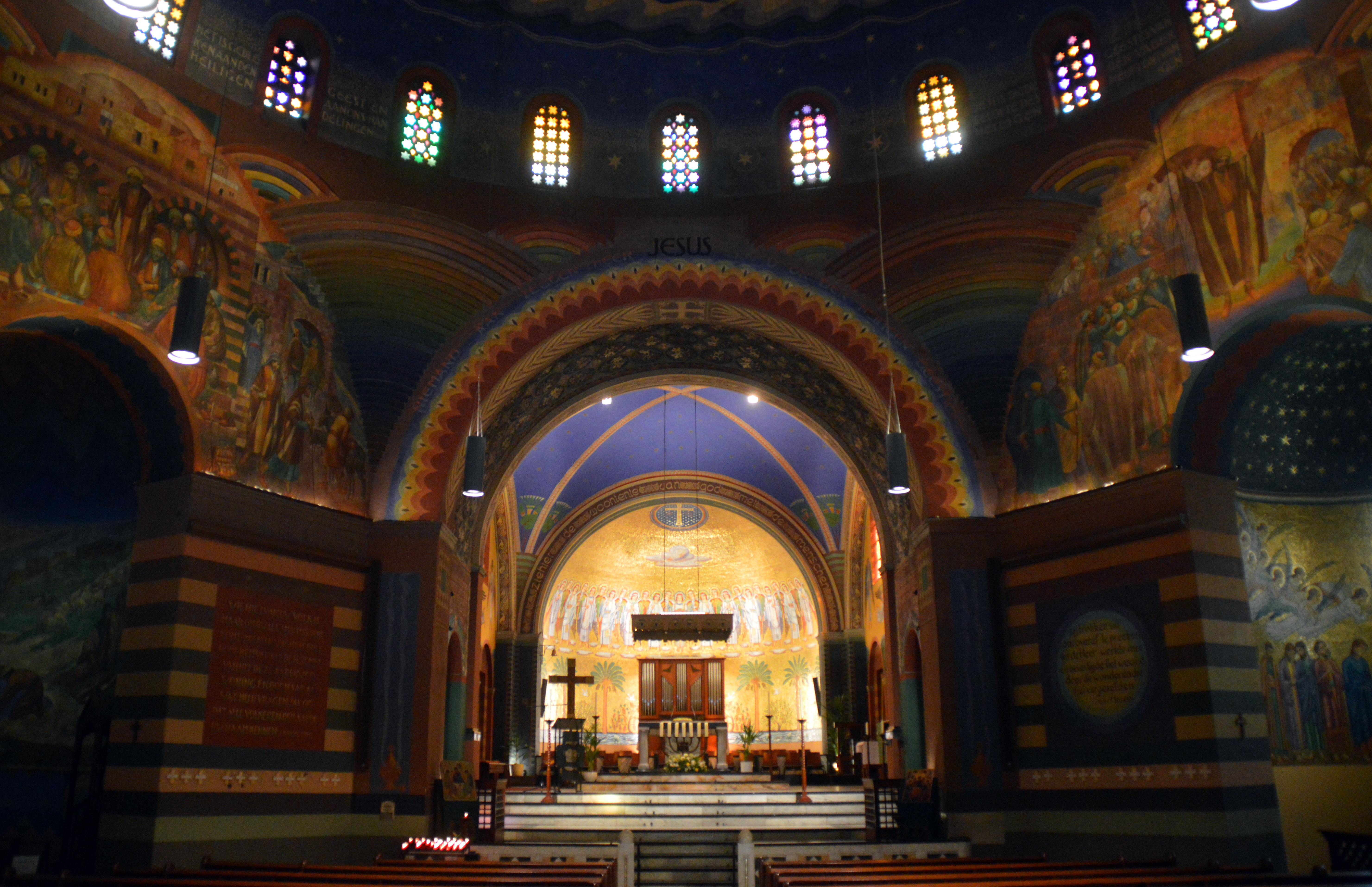 Cenacle church (Heilig Landstichting) The altar with apse